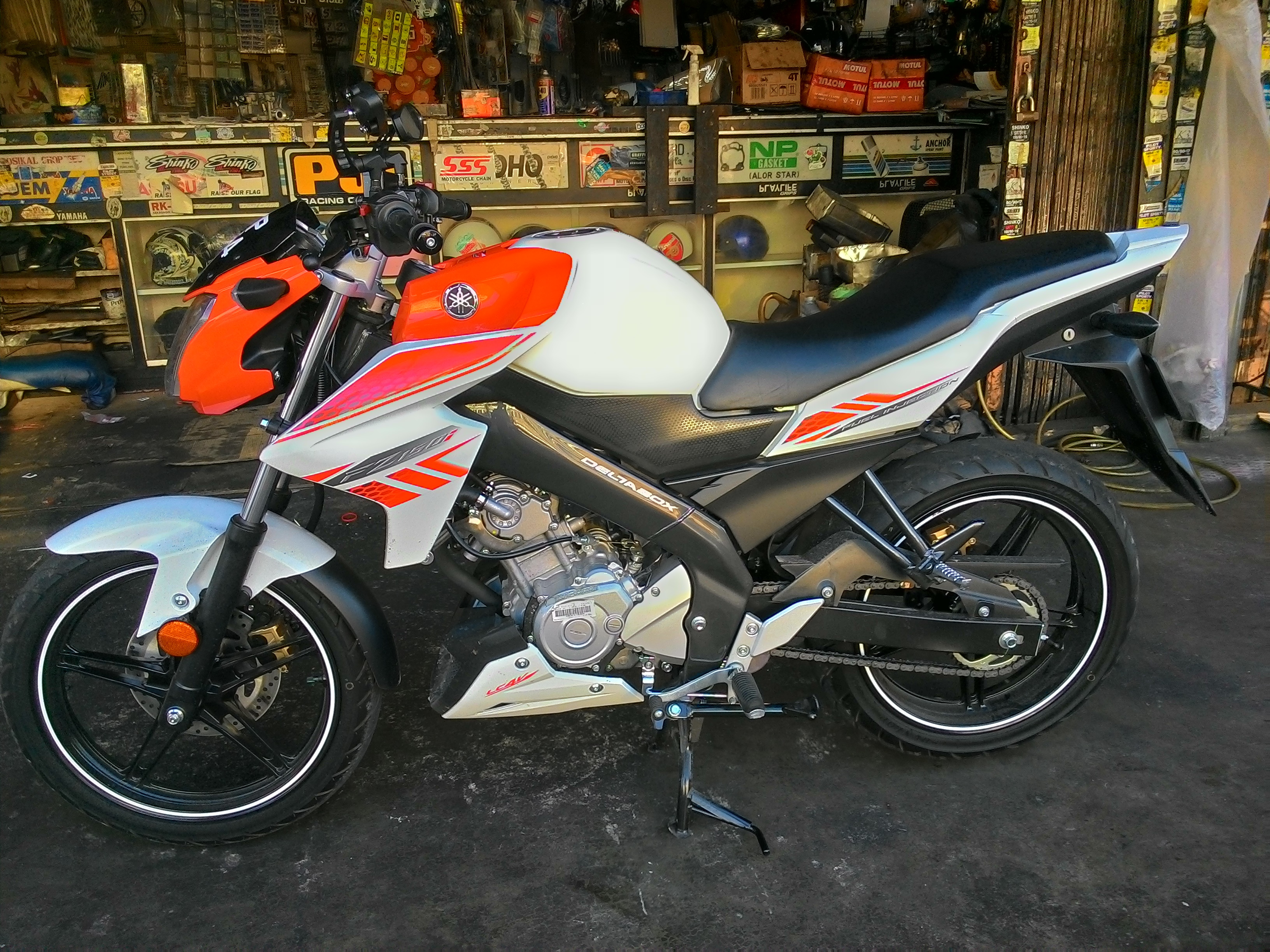 Yamaha FZ150i 2014 captured at my father workshop